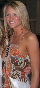 Stacy Offenberger (Miss Ohio USA 2006), in a picture taken during a party prior to the Miss USA 2006 pageant.